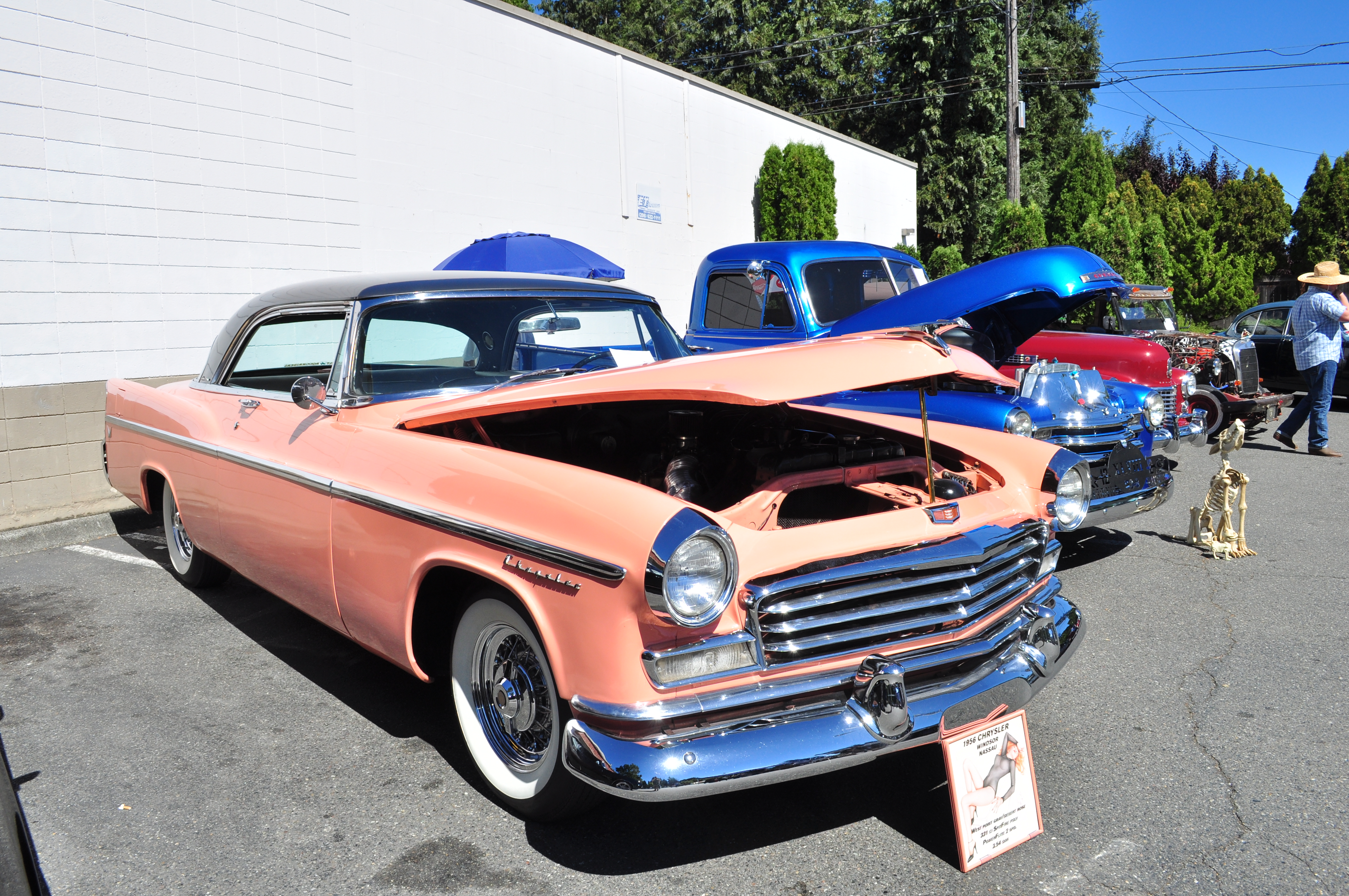 1956 Chrysler Windsor Nassau (with open hood) on display at 10th Annual Wedgwood Car Show, Wedgwood, Seattle, Washington, U.S.